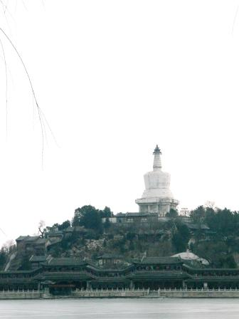 The White Dagoba, a Stupa in Beihai Park in Beijing, as seen from the lake.